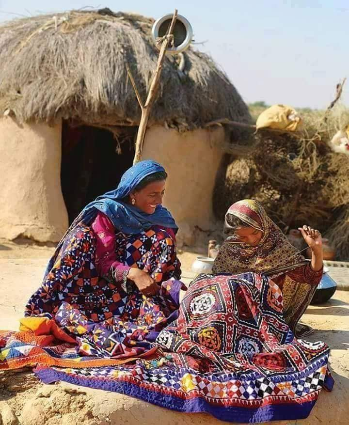 Two women of Cholistan doing a handwork job at home. This is a traditional sheet of this are which is very popular across the region.